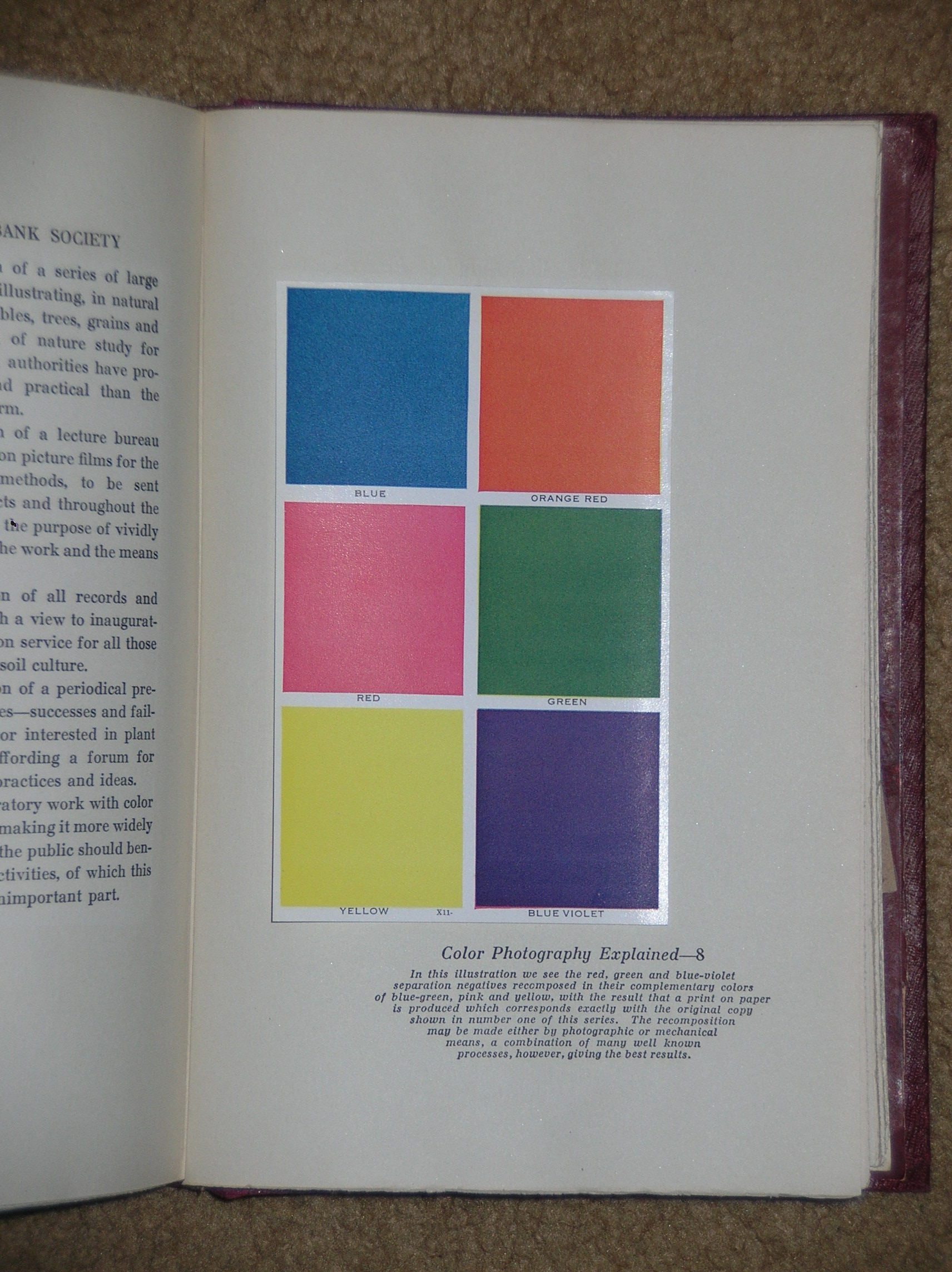 Color Photography Explained 8 - Luther Burbank: His Methods and Discoveries, Their Practical Application Vol. XII - 1915. Number 8 of 9 photographs explaining color photography in one of the first volumes printed with color photographs. 105 photographs are in each of the the twelve volumes.